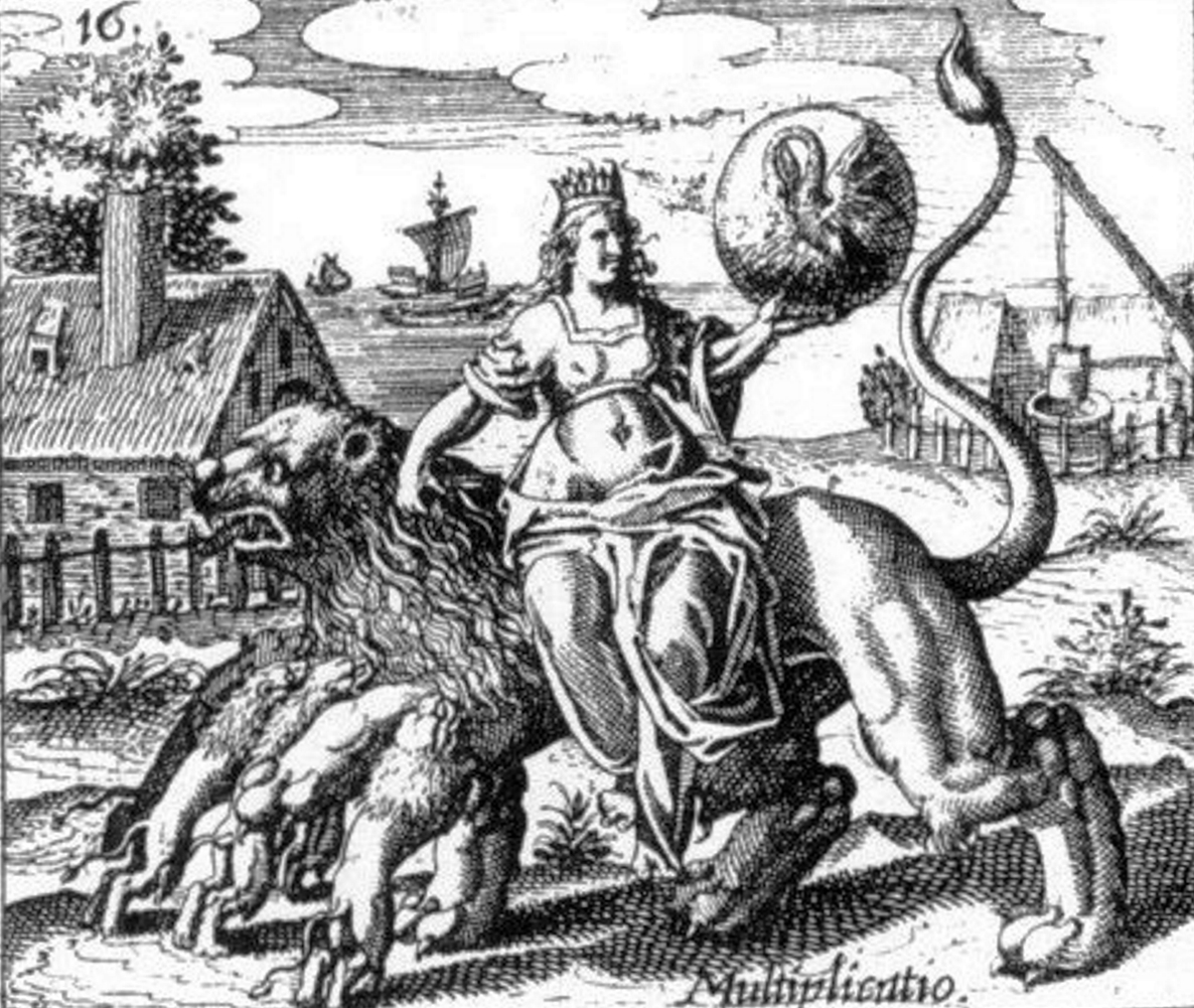 Emblem numbered 16 and captioned 'Multiplicatio' from J.D. Mylius - Philosophia Reformata. Engraved by Balthazar Schwan.